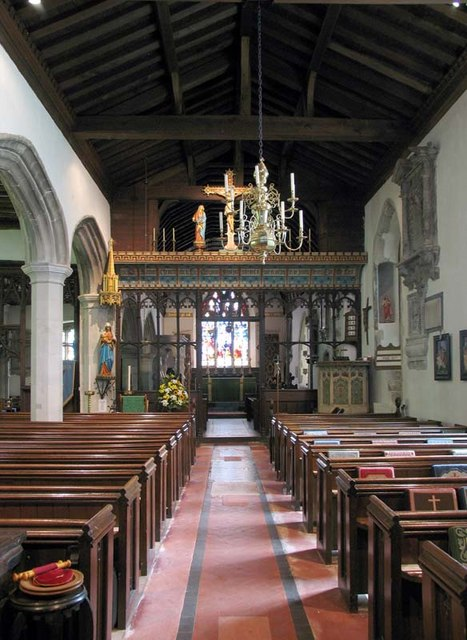 St Giles, South Mimms, Herts - East end